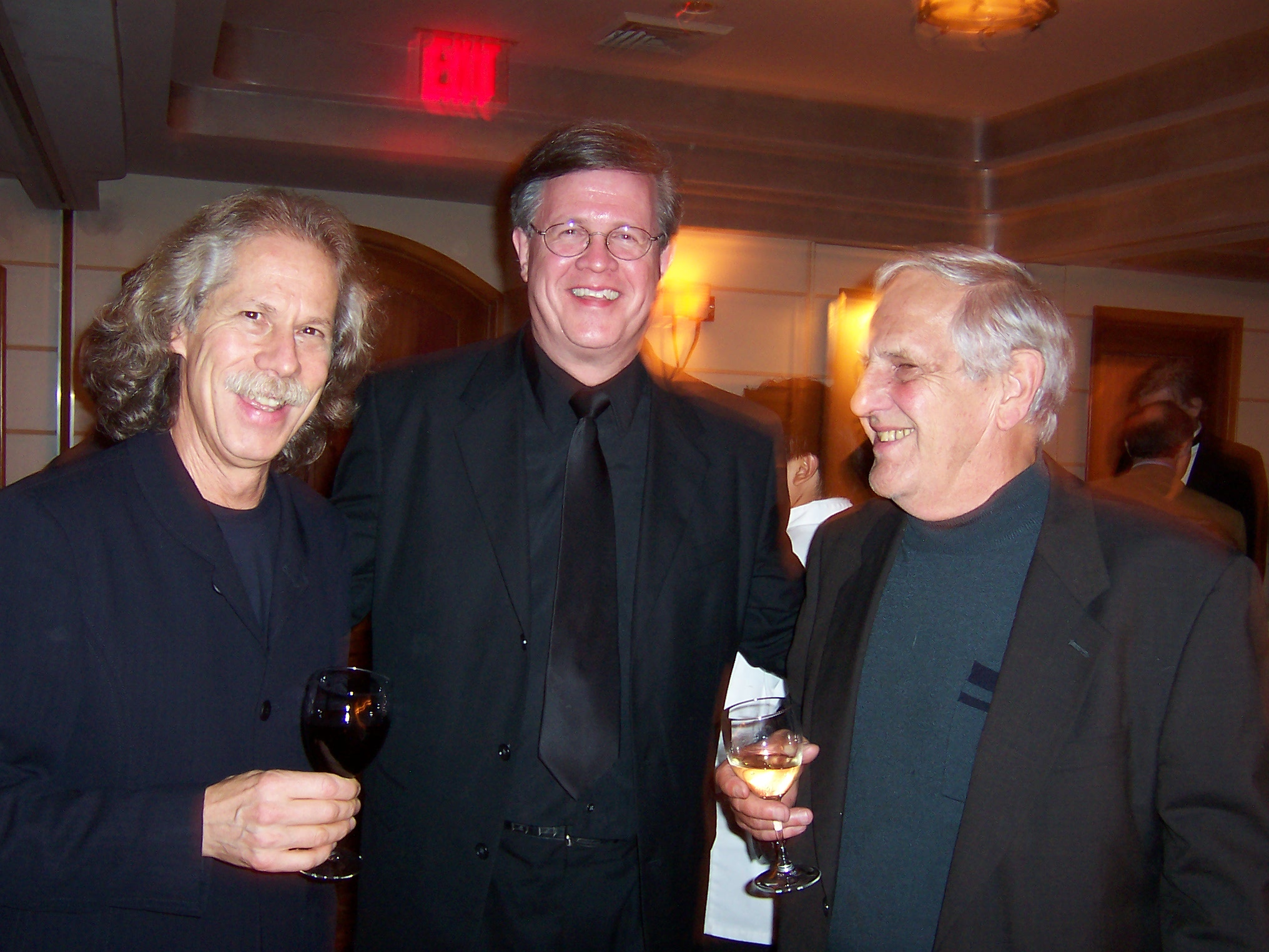 Ray Reach, Lou Marini and Ernie Stires at a reception following a Carnegie Hall concert which featured the music of Ernie Stires and Trey Anastasio. Photo by Claudia Reach.